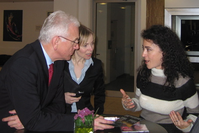 Maria Dangell and Dr. Hans-Gert Poettering discussing "Hearts of Peace in the Middle East", Duesseldorf 2008